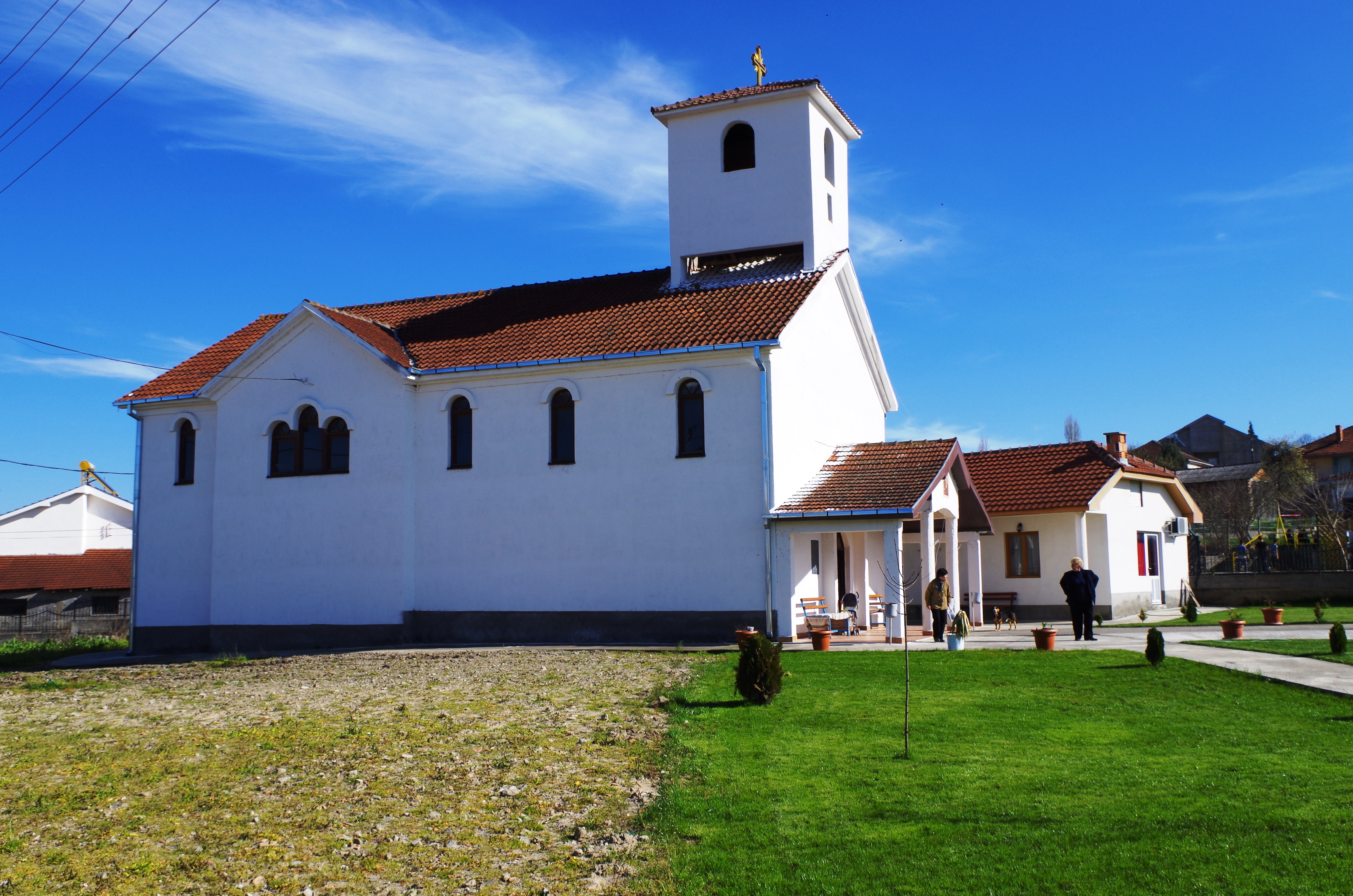 Church in the village Timjanik